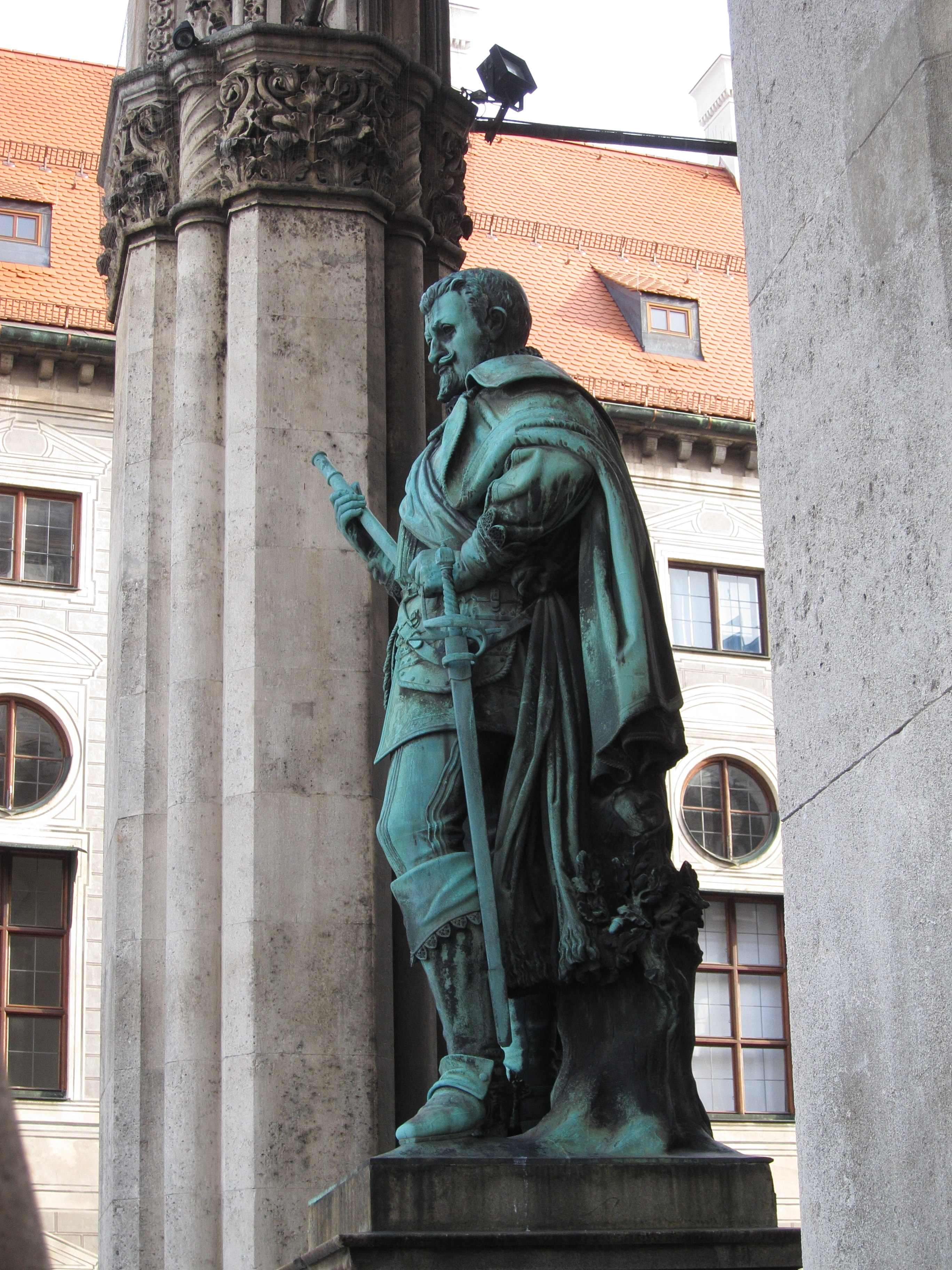 Johann Tserclaes, Count of Tilly, statue, Feldherrnhalle, Munich, Bavaria, Germany.